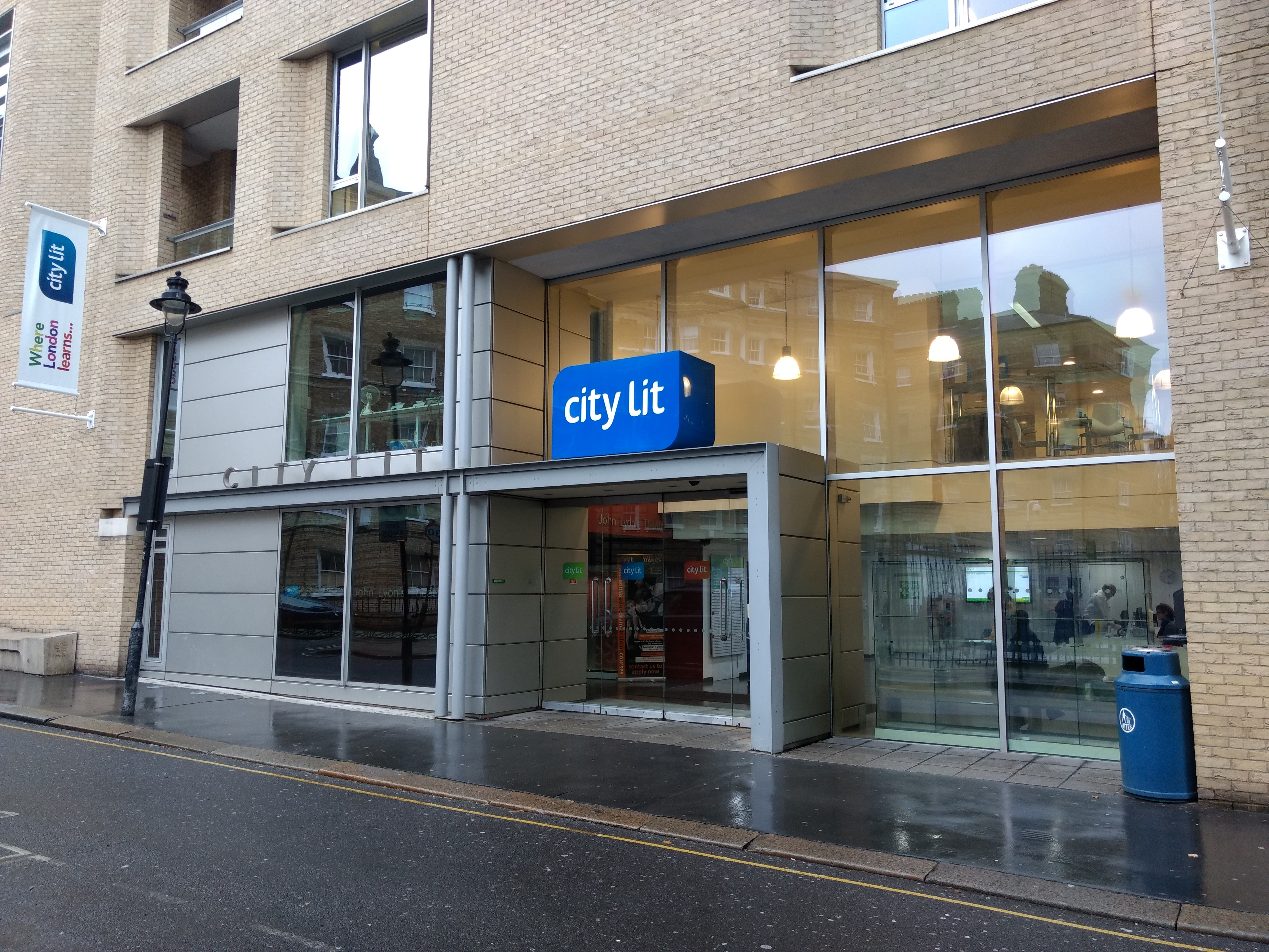 Keeley Street